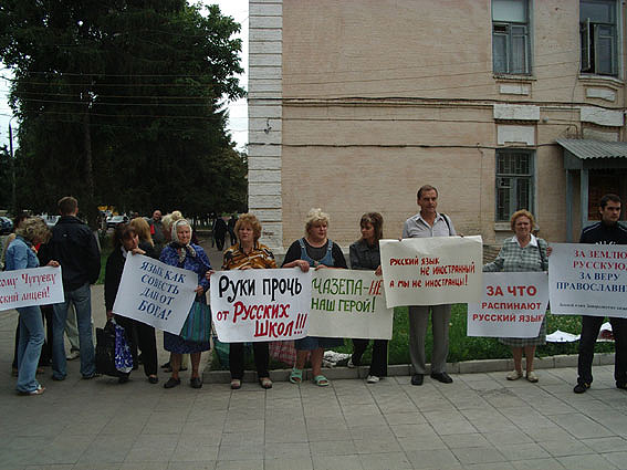 Pro-Russian[1] public association "Ravnopravie" activists in a meeting against plans to ukrainianize a Russian lyceum in Chuguyev (Kharkov oblast)